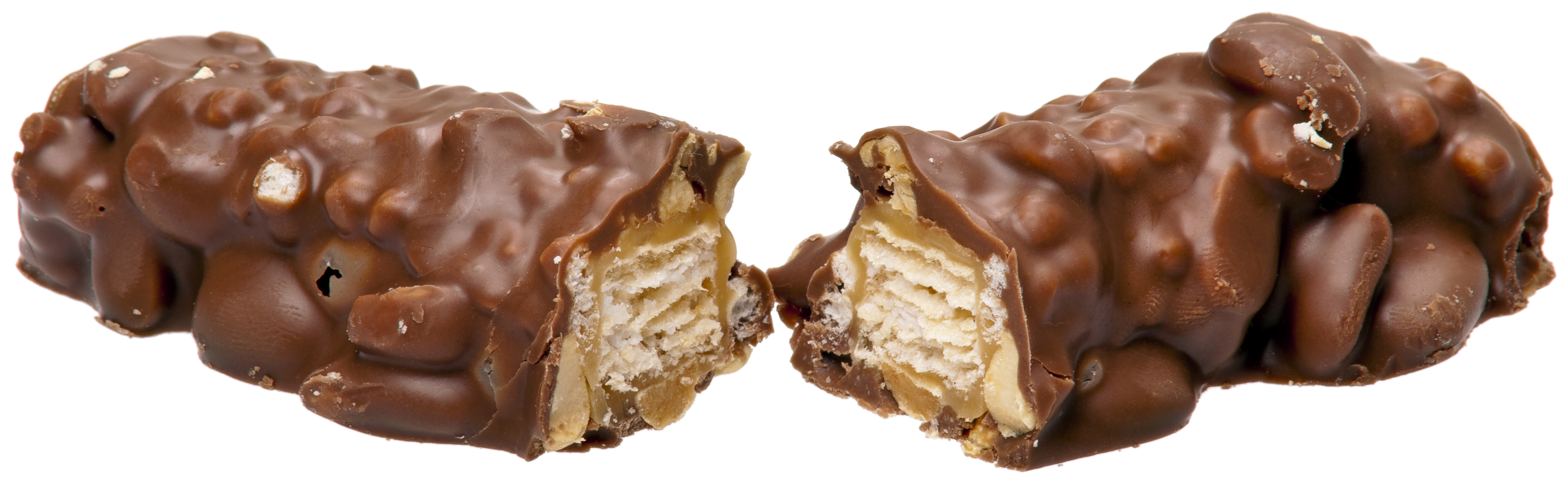 An Australian Cadbury Picnic bar, shown split in half.